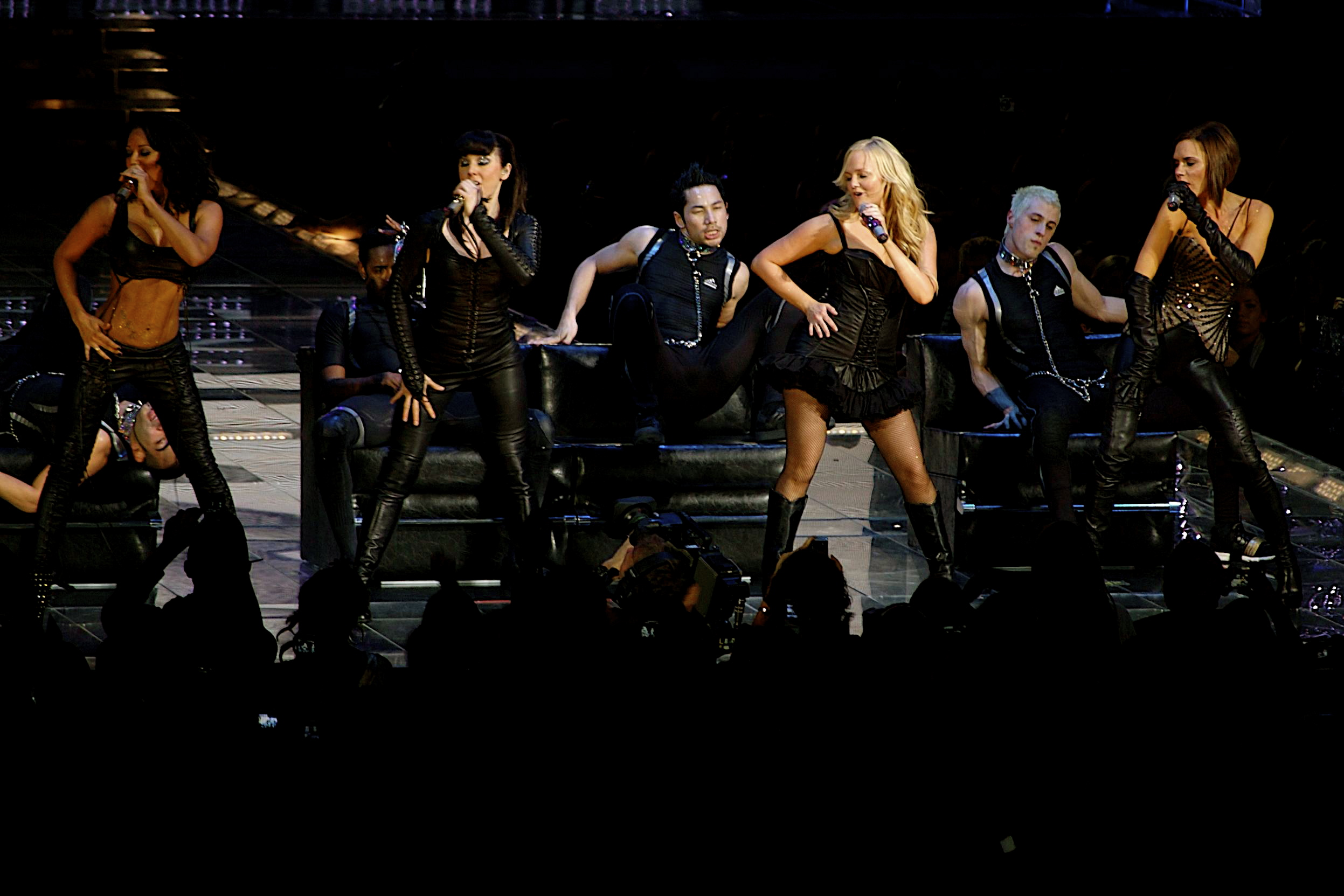 The Spice Girls performing Holler at the Air Canada Centre in Toronto, Canada.